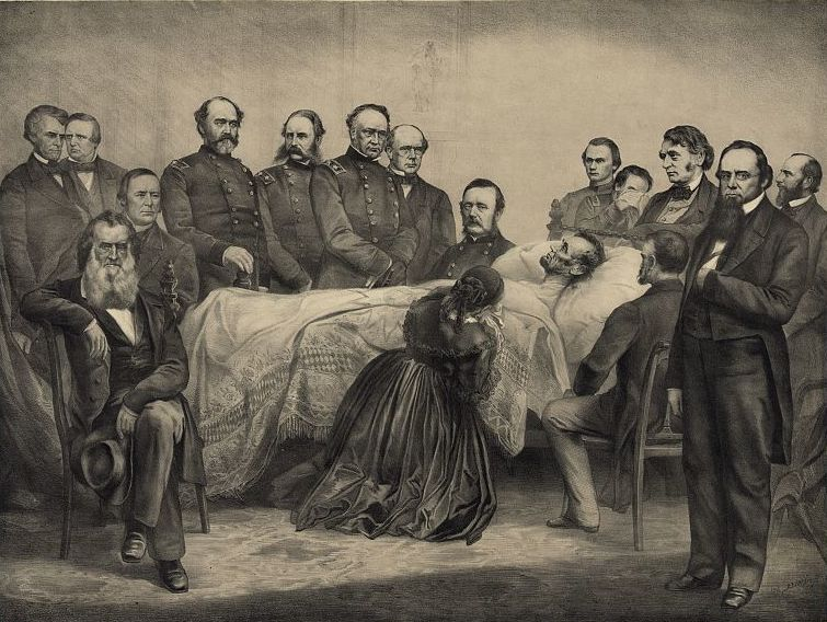 Print shows the interior of a room with Abraham Lincoln lying on a bed surrounded by cabinet members, generals, and family members, from left: William Dennison, Post Master General, Sec. John P. Usher, Sec. Gideon Welles, Sec. Hugh McCulloch, General Montgomery C. Meigs, General Christopher C. Augur, General Henry Halleck, Chief Justice Salmon P. Chase, Surgeon General Joseph Barnes, Mary Todd Lincoln, Major John M. Hay, Captain Robert Todd Lincoln, surgeon Charles Leale, Senator Charles Sumner, Sec. Edwin M. Stanton, and Attorney General James Speed. 1 print : lithograph ; 62.2 x 81.5 cm (sheet). Published by Jones & Clark 83 Nassau St. N.Y. ; Boston : C.A. Asp, Washington St. ; Cincinnati, O[hio] : W.M. Kohl no. 166 Walnut St., c1865 (N.Y. : Printed by A. Brett & Co. 83 Nassau St.)